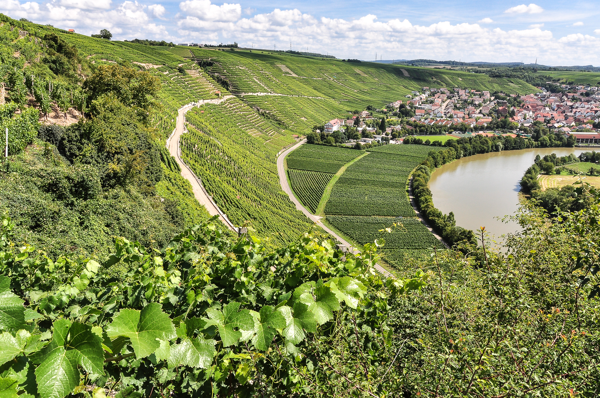 Above the Neckar river near Mundelsheim rocky vineyards are rising.